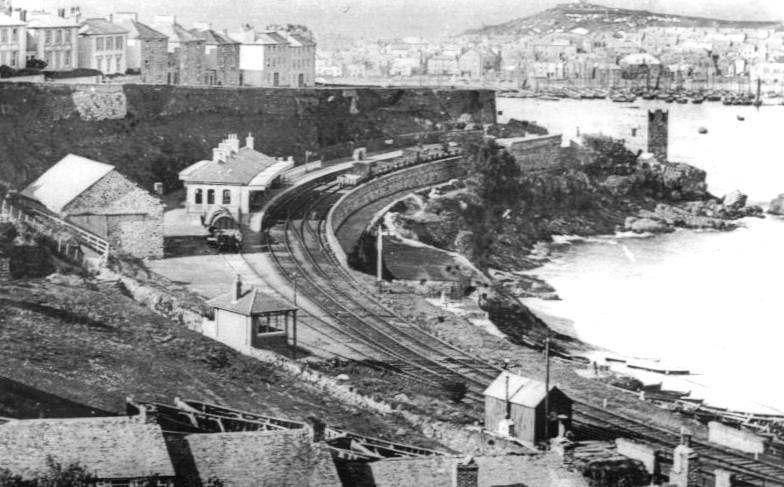 St Ives railway station, Cornwall, United Kingdom. the photographs was taken before the broad gauge line was converted in 1892. The arrival of the railway in 1877 prompted the promotion of the town as a tourist destination, but the old fishing industry continued for some time. A number of seine boats can be seen drawn up on the beach below the station, and the railway trucks to the right of the station are designed for fish traffic.